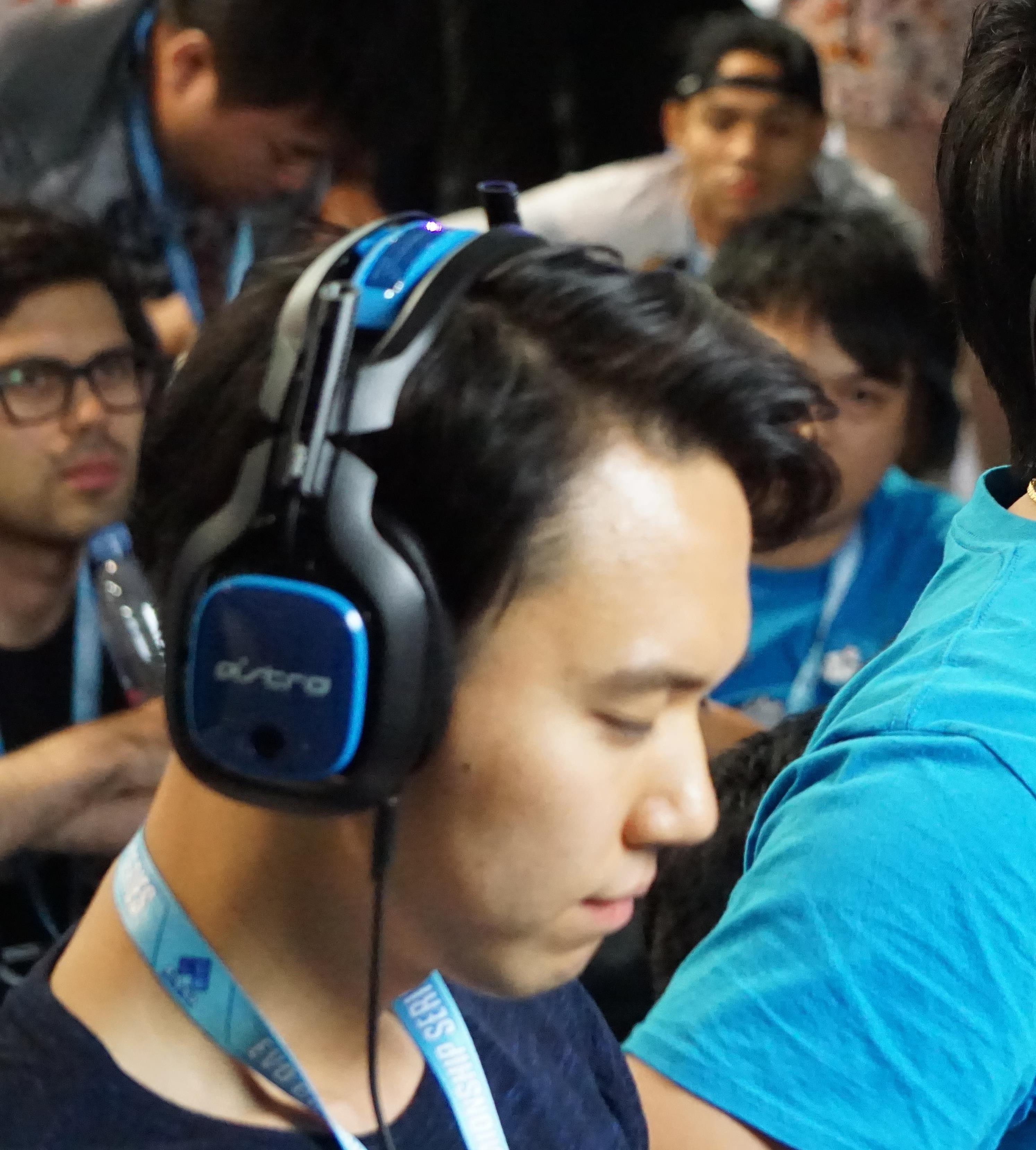 A crop of File:Tokido and Dakou at Evo 2016.jpg.